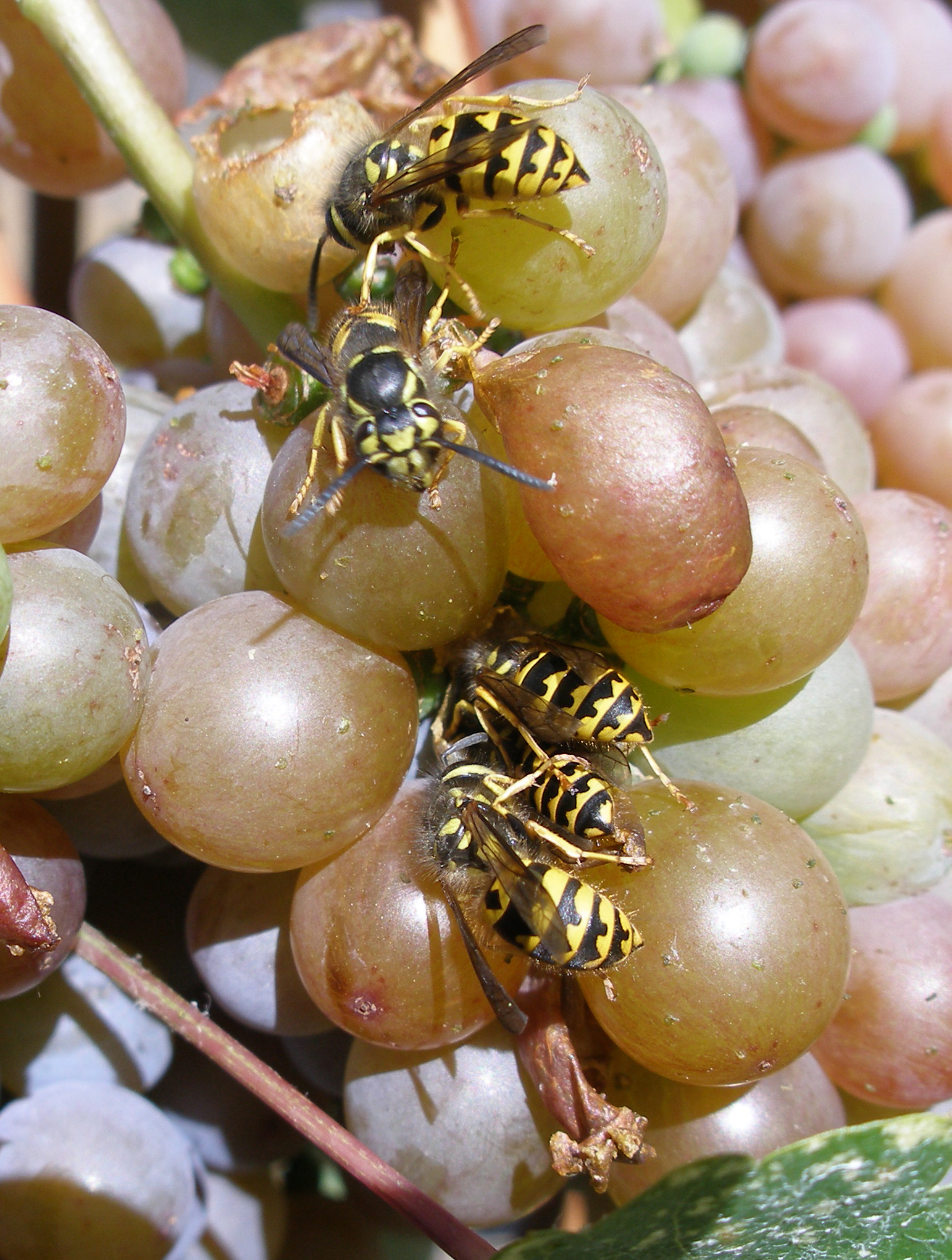 Wasps attracted to clusters of grapes